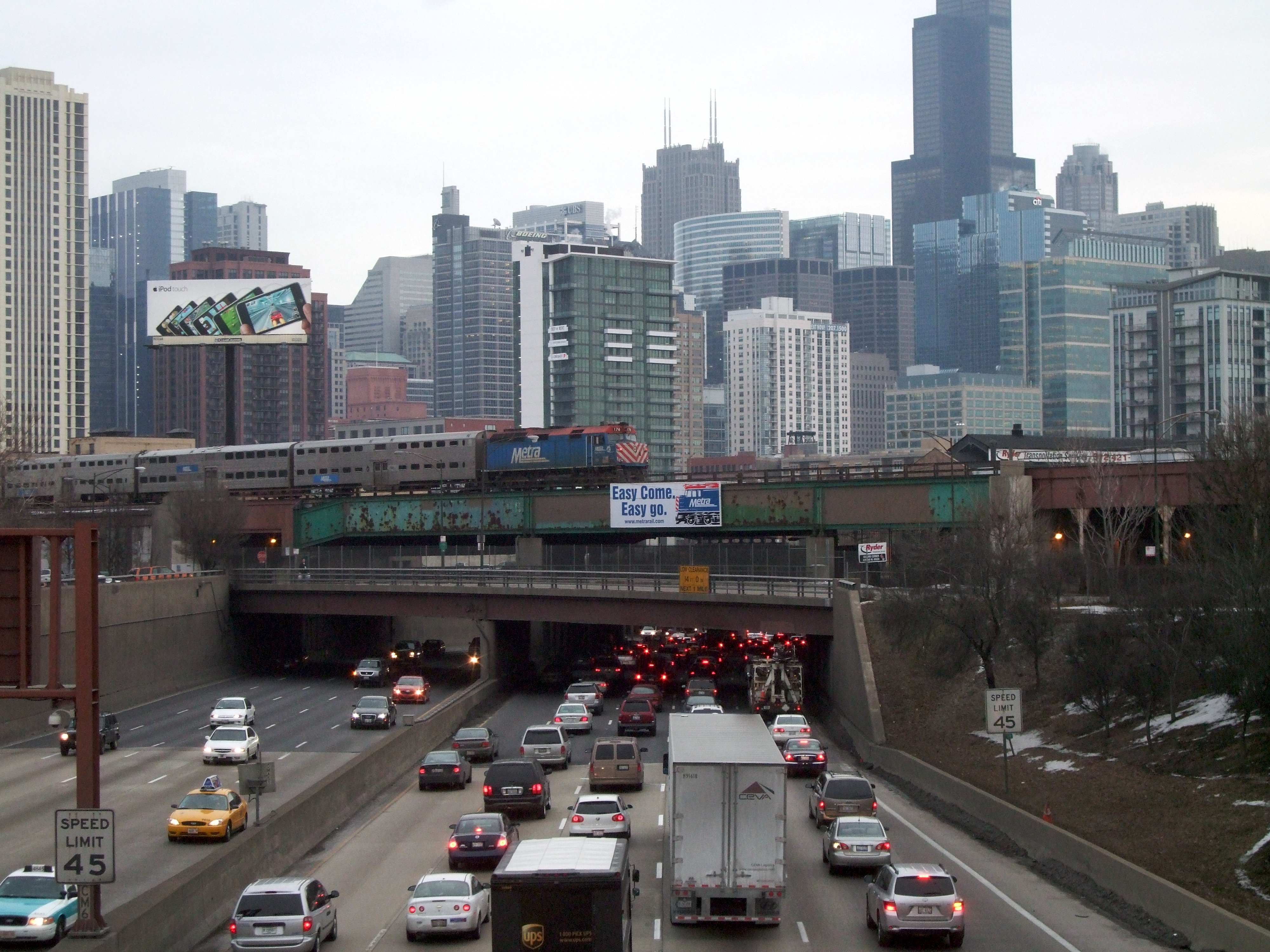 A sign over the Kennedy Expressway reading "Easy come. Easy go." to convince commuters to use Metra instead of the commonly-congested Kennedy Expressway.